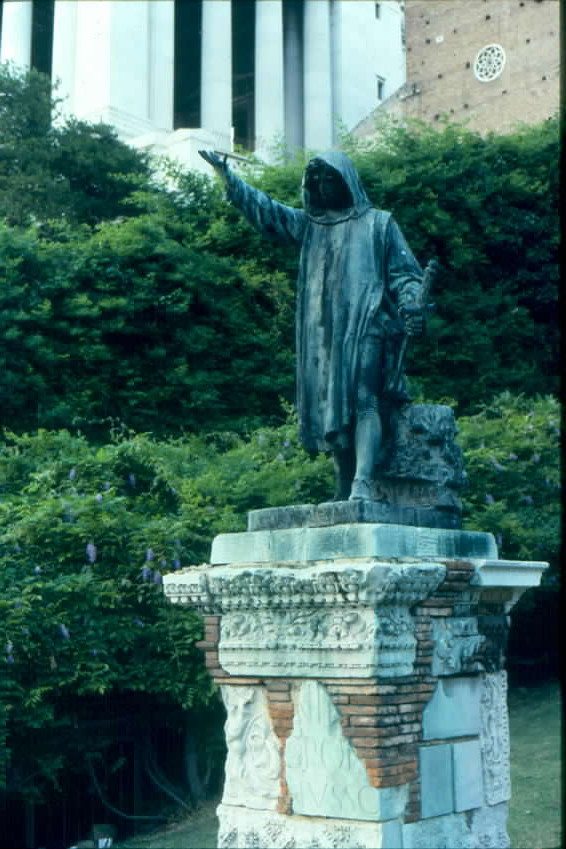 Cola di Rienzi The base for the statue is composed of bricks and other fragments from ancient Roman ruins, symbolizing the idea that Rienzo's period of rulershp was based on the ideals of the ancient Roman Republic.